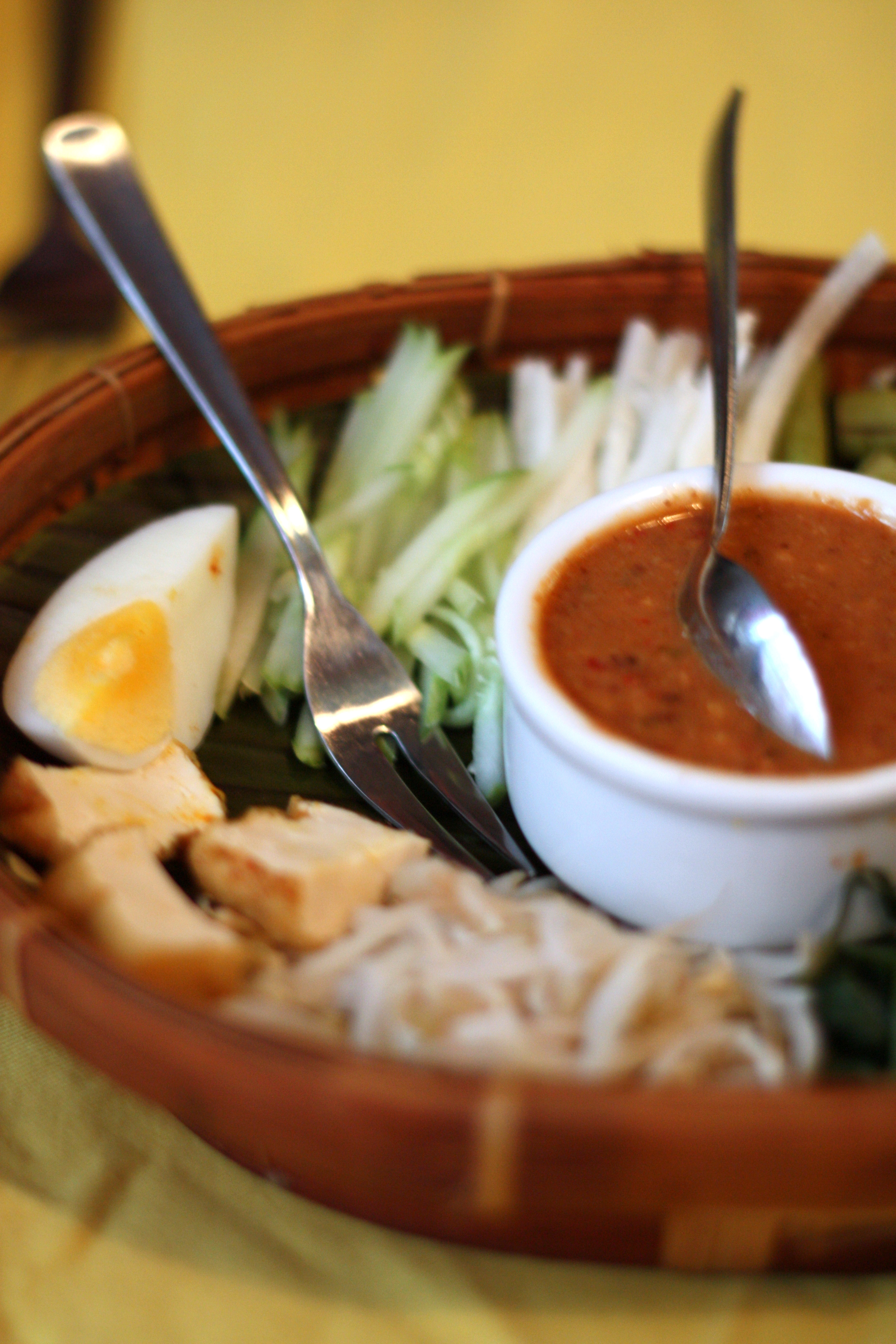 Quite nice the sauce, a little sweet for me though.